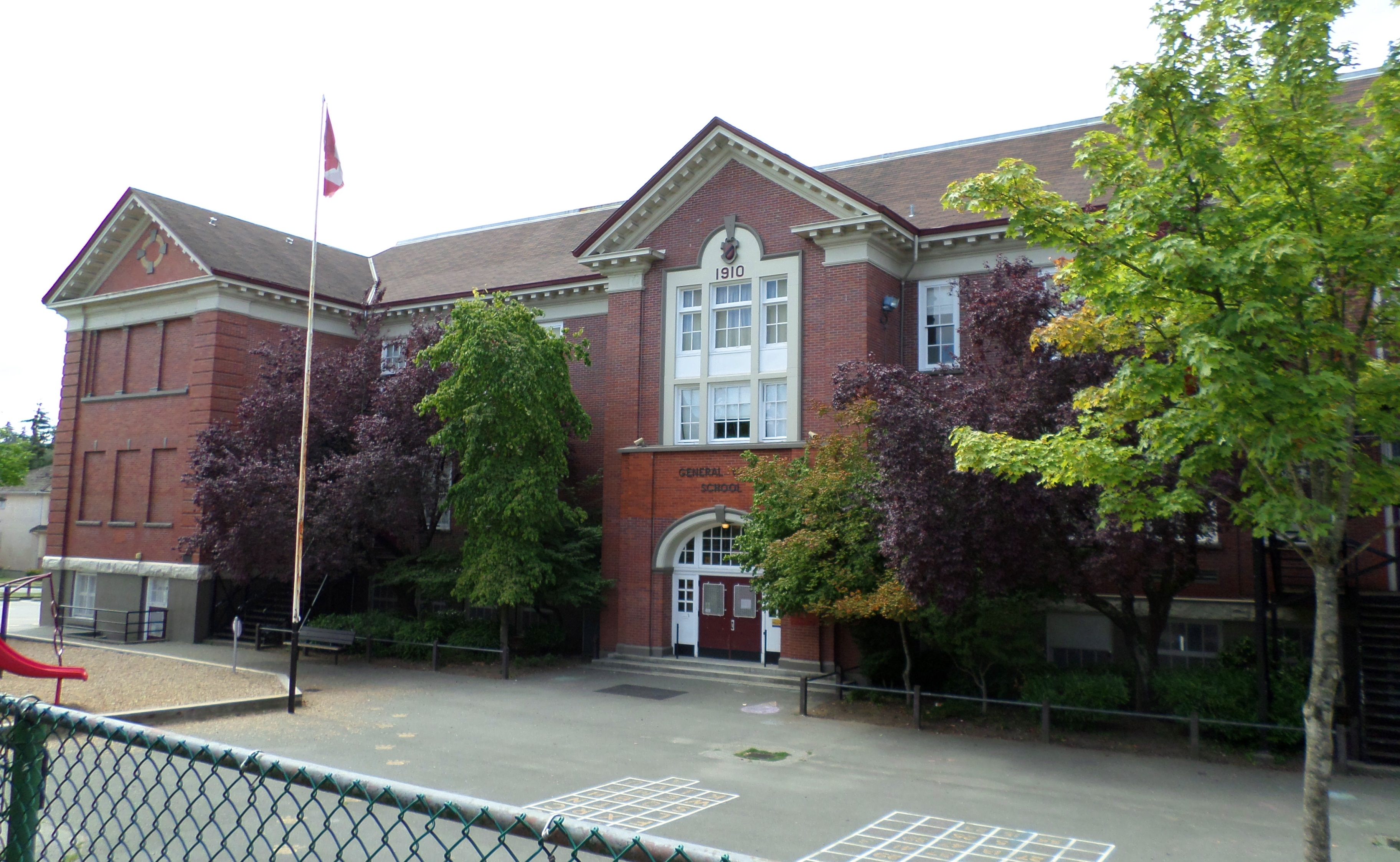 The General Wolfe Elementary School, located at 4251 Ontario St, Vancouver, BC. The school is listed on the Canadian Register of Historic Places.